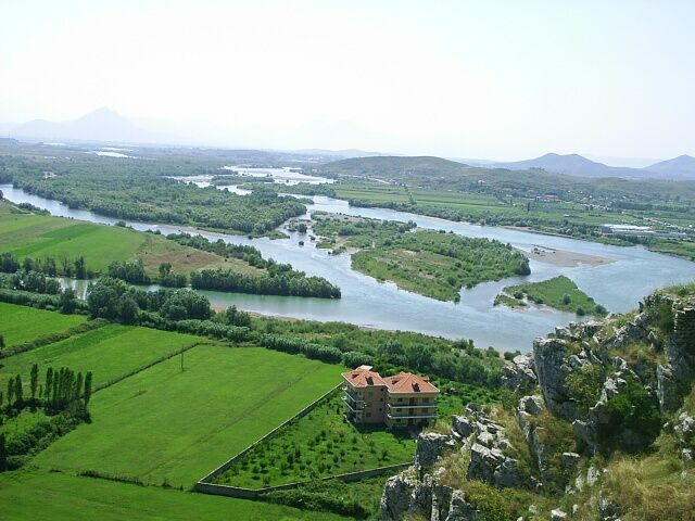 Town of Scutari, main town in northern Albania